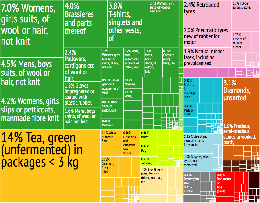 A proportional representation of Sri Lanka's exports.